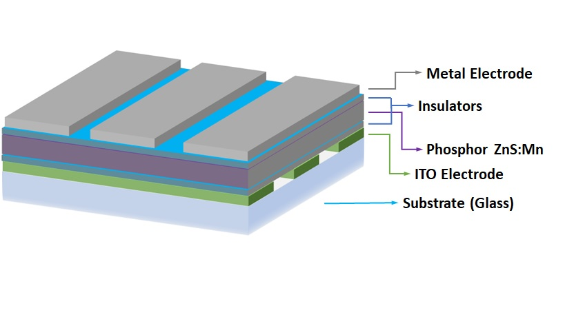 Representation of structure of thin film (second version)